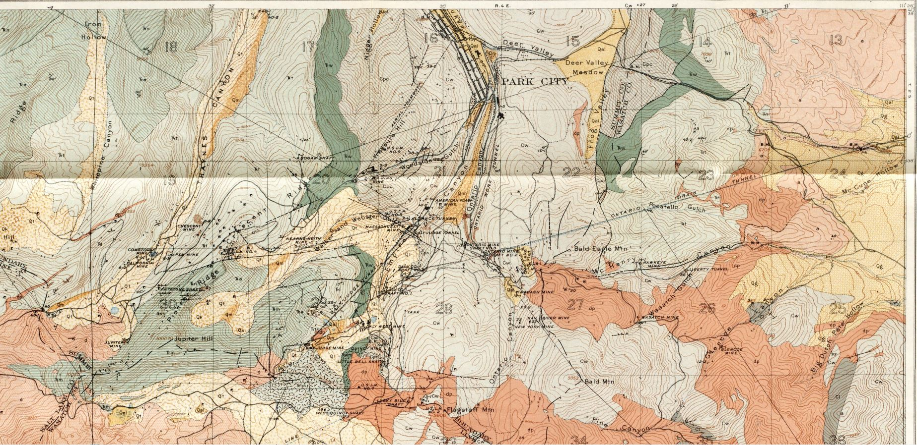 Ontario Silver Mine geologic map